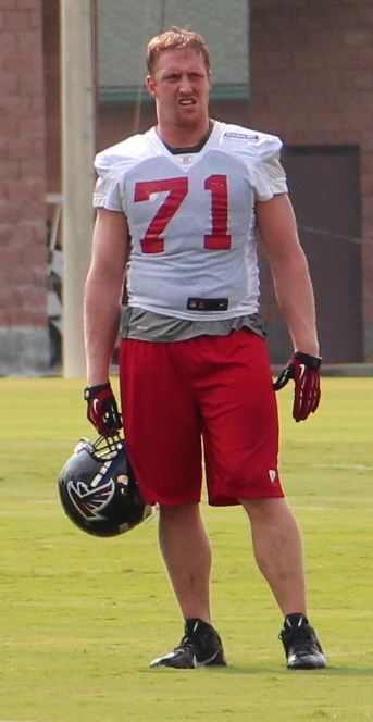 Kroy Biermann at Falcons training camp, 2013